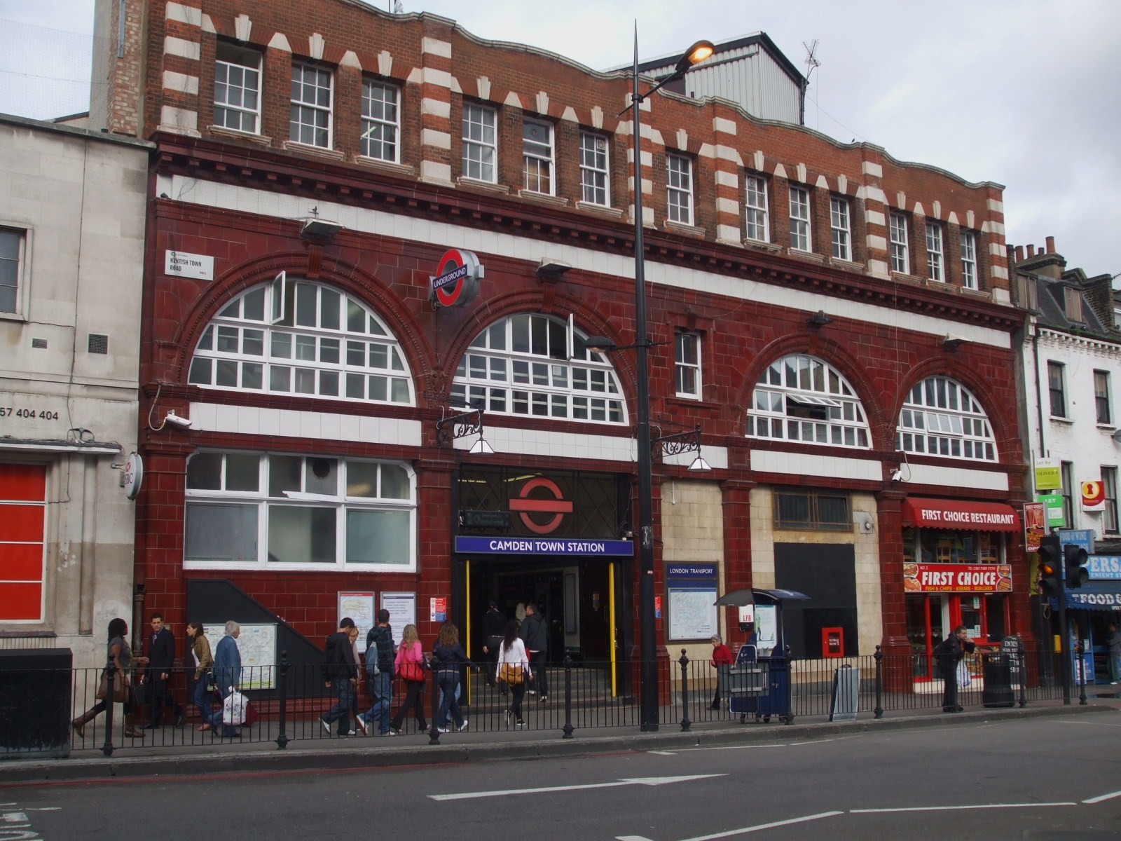 Camden Town tube station building, viewed from the eastern side. The Overground station that originally bore this name, but is now called Camden Road, is some distance away from the Underground station.